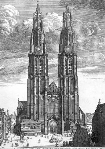 18th century engraving showing the planned final appearance of the Cathedral of Our Lady (Antwerp).